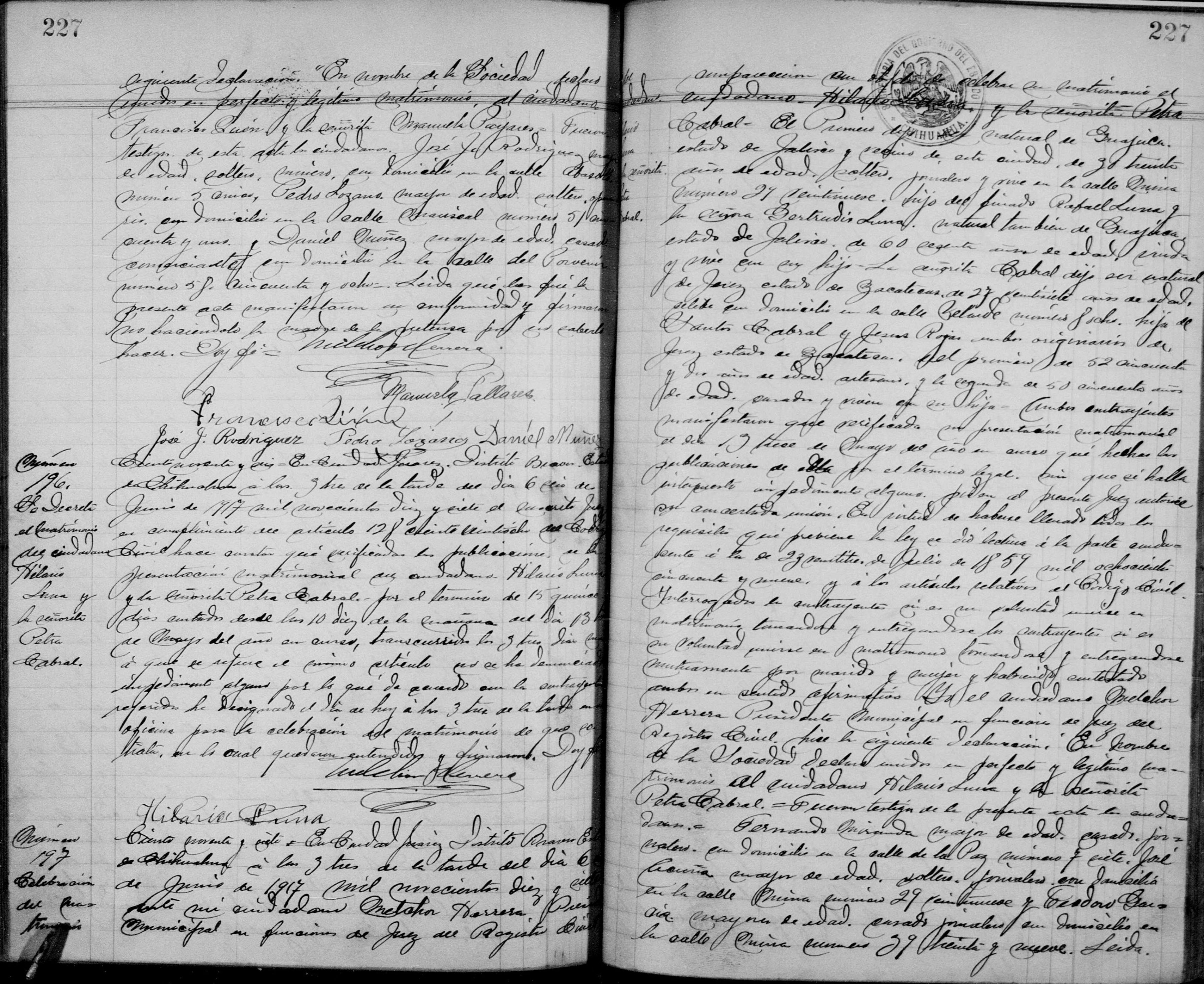 marriage record